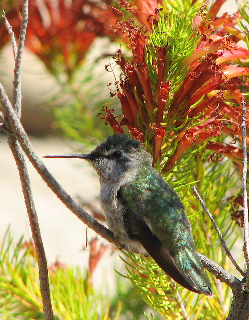 Anna's Hummingbird (Calypte anna) in Cape Heath flower (Erica) South African Garden, UCSC Arboretum